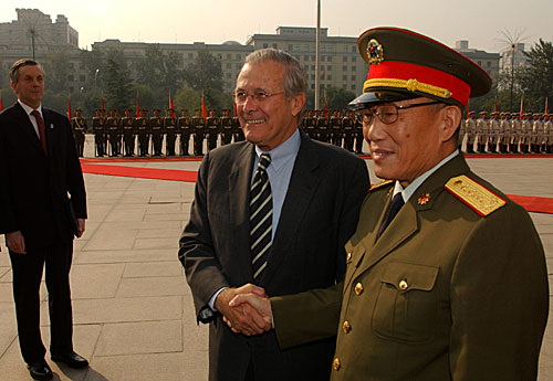 United States Defense Secretary Donald Rumsfeld is greeted by Gen. Cao Gangchuan, vice chairman of Central Military Committee and Minister of National Defense of the People's Republic of China while at the Bayi Building, Beijing on October 18, 2005. Rumsfeld traveled to China for meetings with military and civilian leaders to discuss U.S.-China defense relationships and cooperation in areas of common interest.